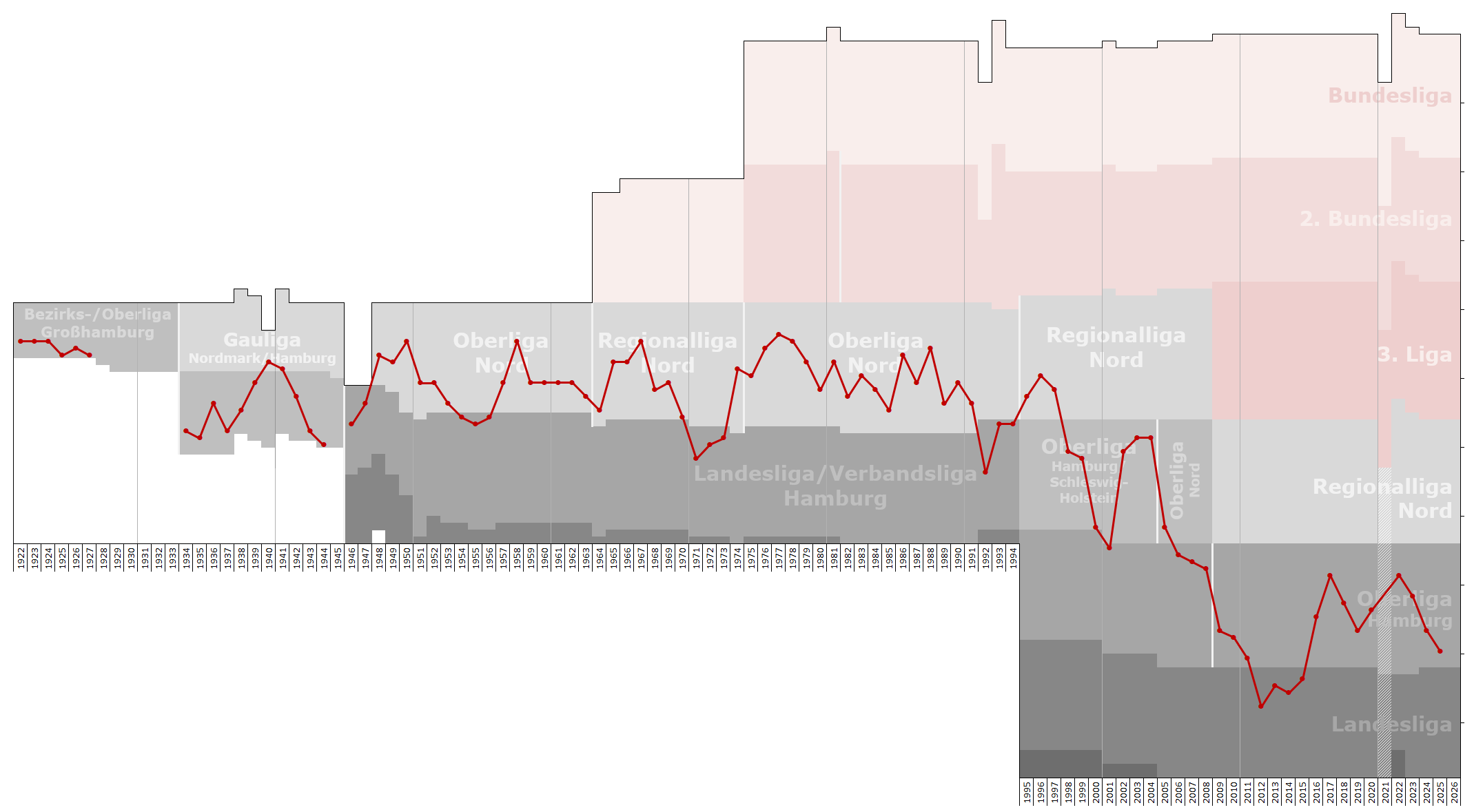 Chart of end-season table positions of Concordia Hamburg in the football league system of Germany. Data source: RSSSF, wikipedia, f-archiv.de, fussball.de